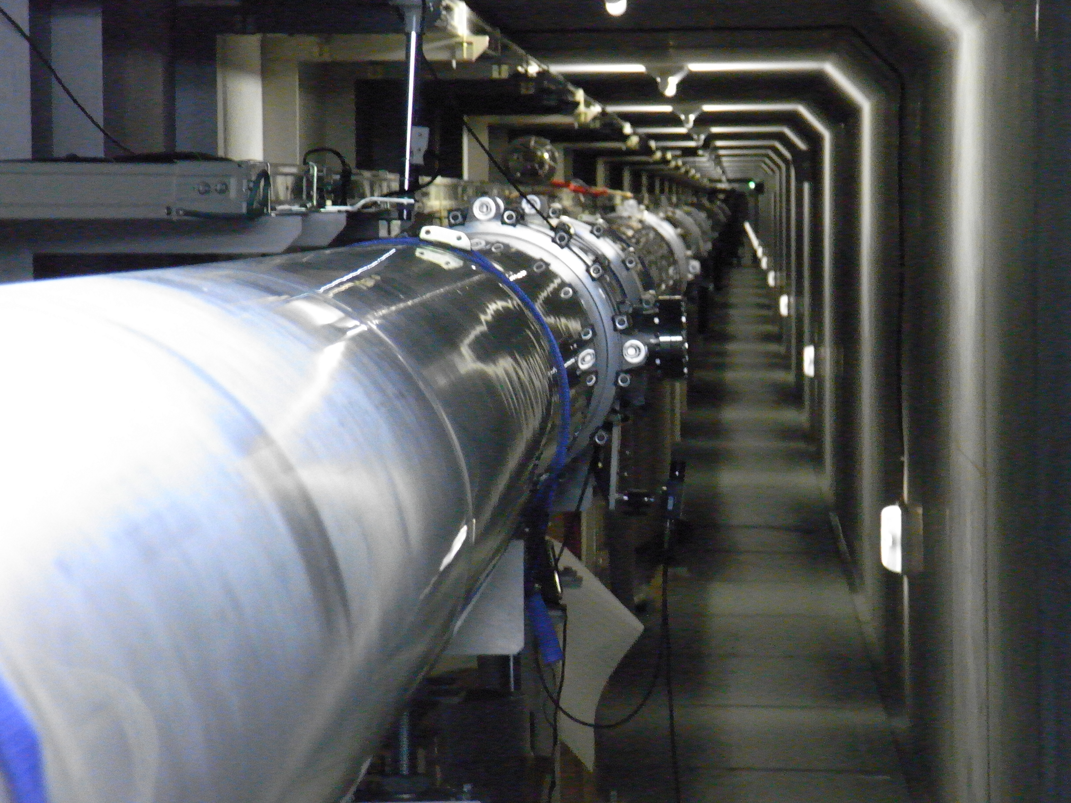 Laser beam duct tunnel of TAMA300 gravitational wave detector under the ground of Mitaka Campus of National Astronomical Observatory of Japan, Mitaka, Tokyo, Japan.